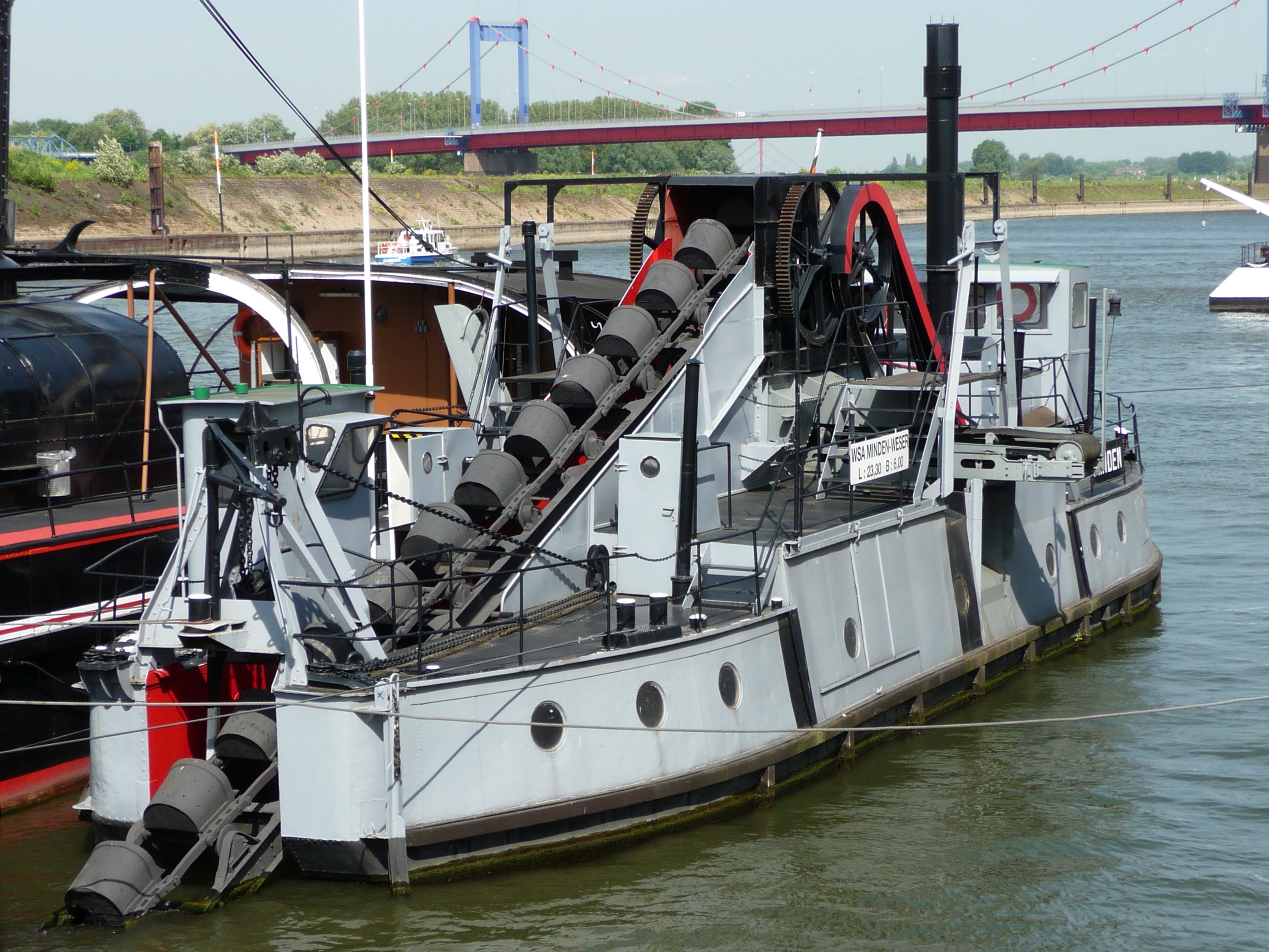 Bild des Eimerkettenbaggers Minden